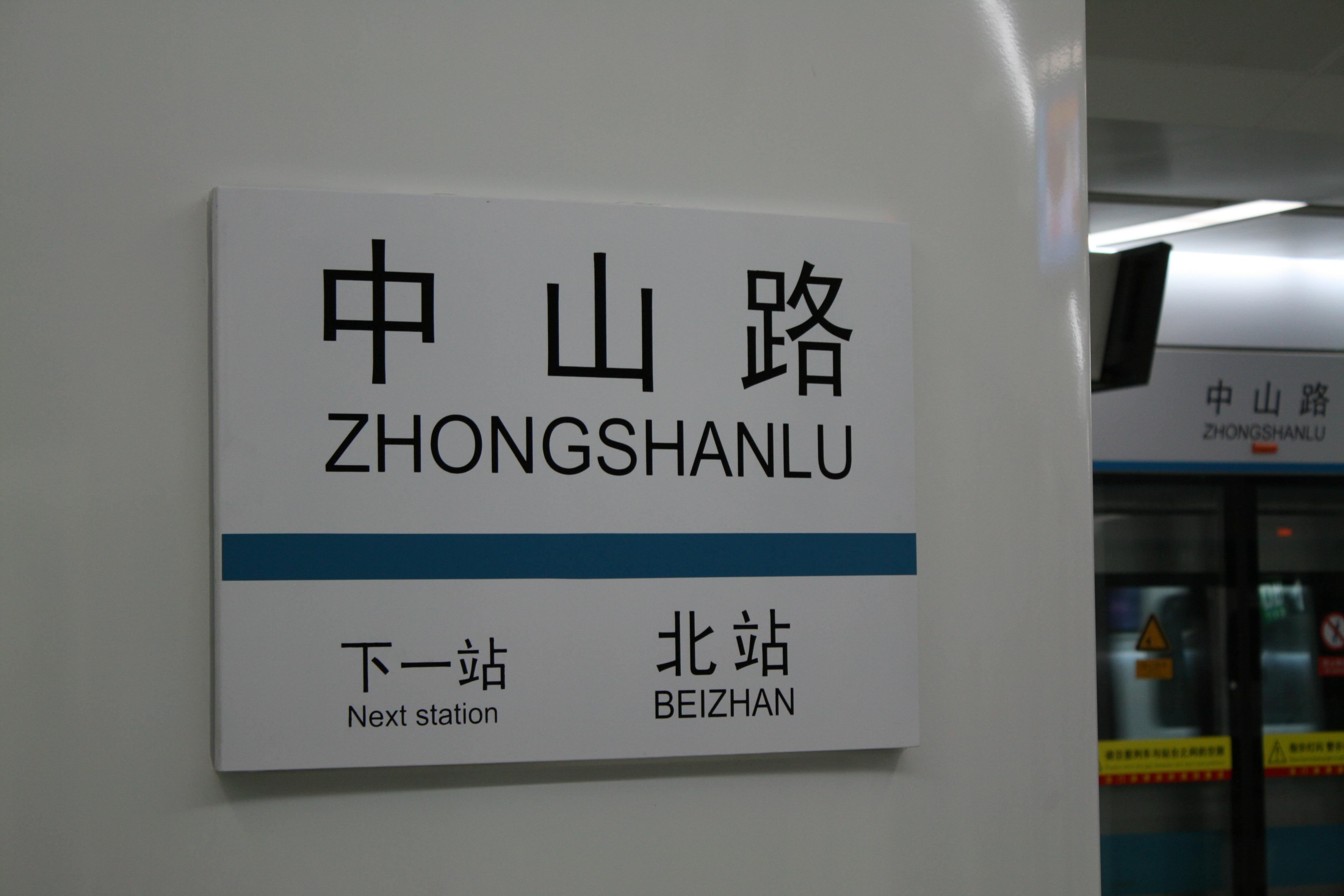 tianjin metro line 3 the ZHONGSHANLU Station ...0002